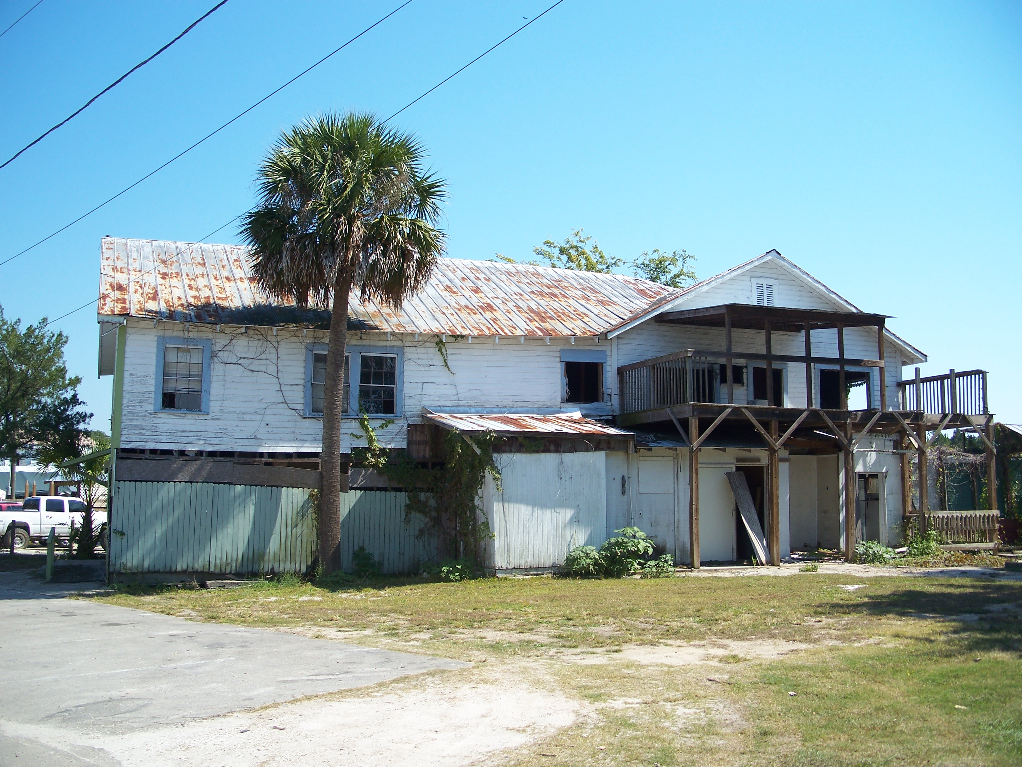 St. Marks, Florida: Posey's Oyster Bar